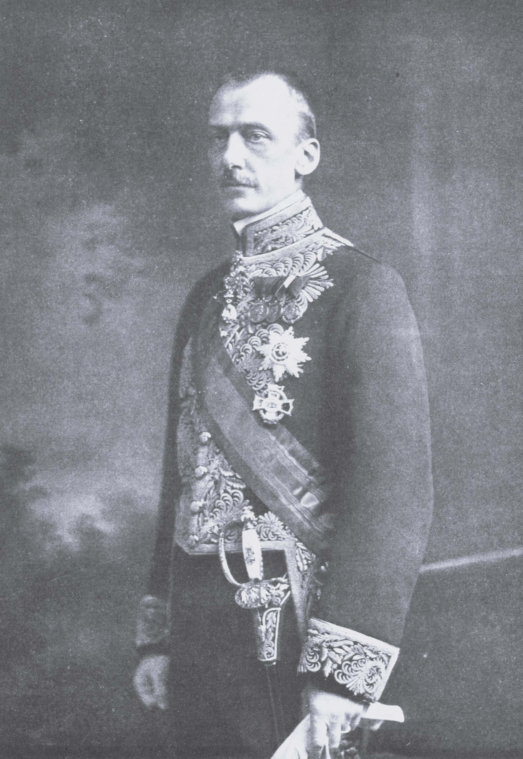 Count Ottokar von Czernin